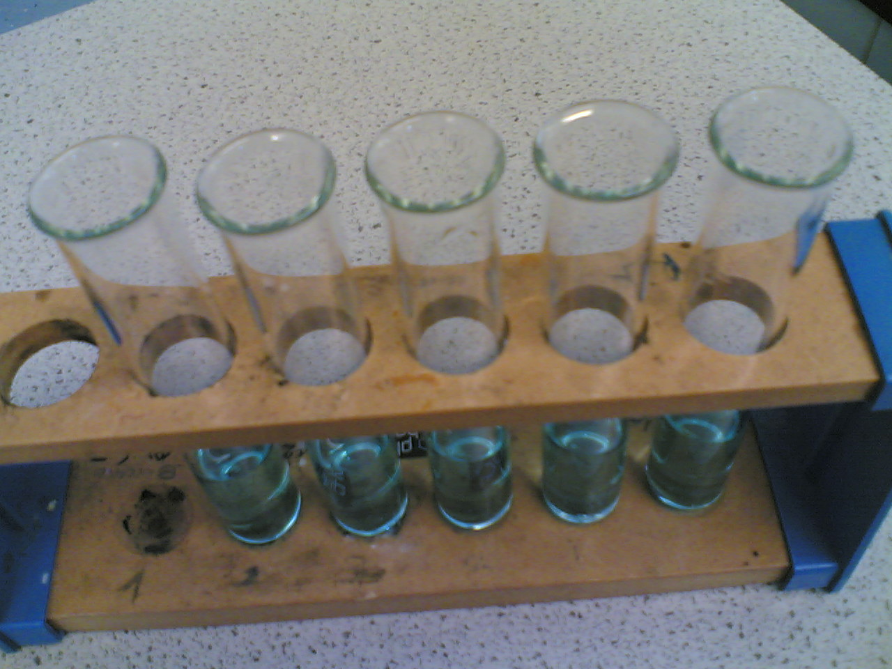 5 test tubes with different concentrations of glucose soloution in addition to Benedict's solution